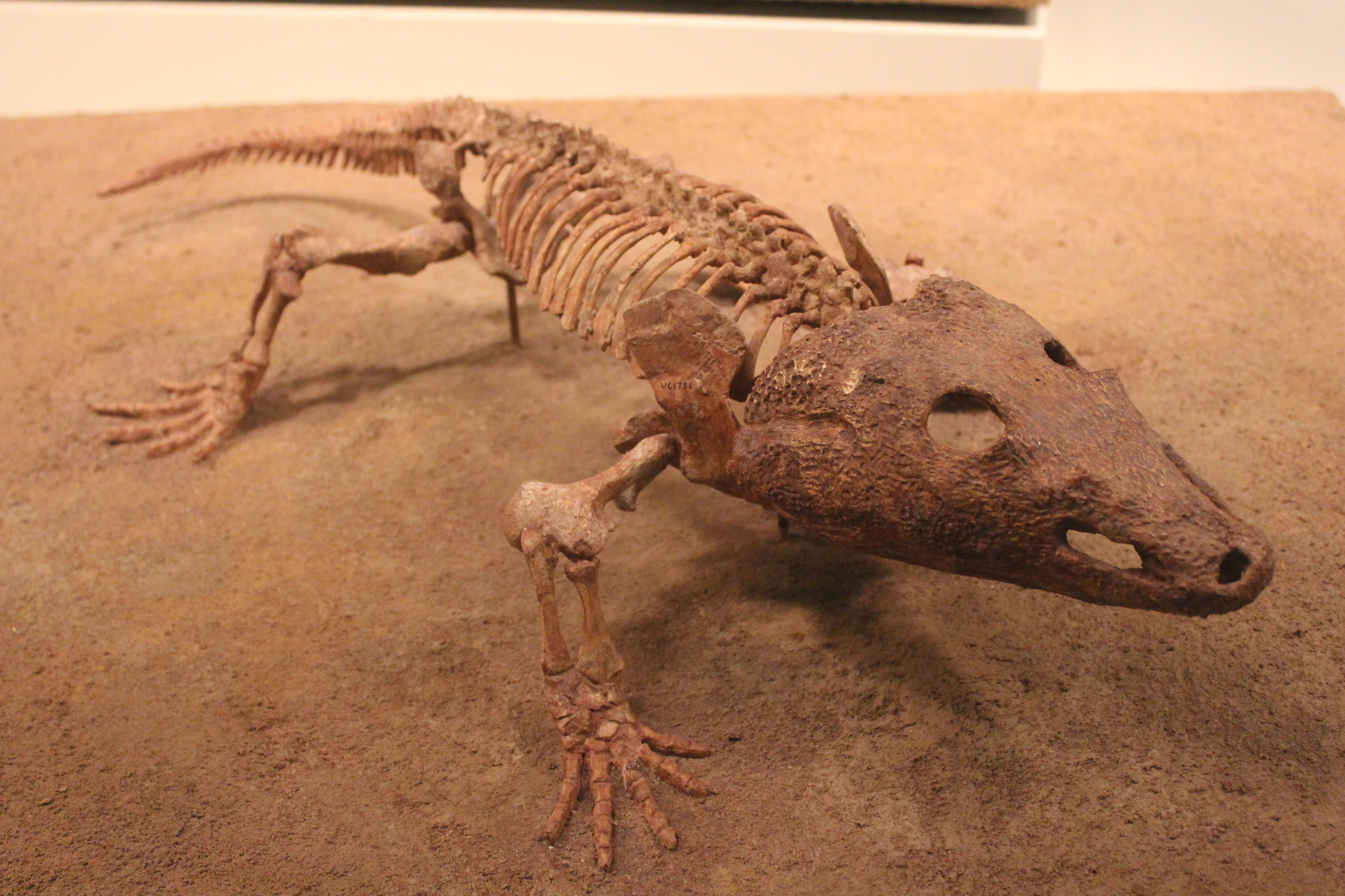 Skeleton of Acheloma cumminsi (UC1756) on display at the Field Museum of Natural History.